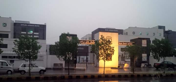 It is main entrance gate of KMSMC, Sialkot